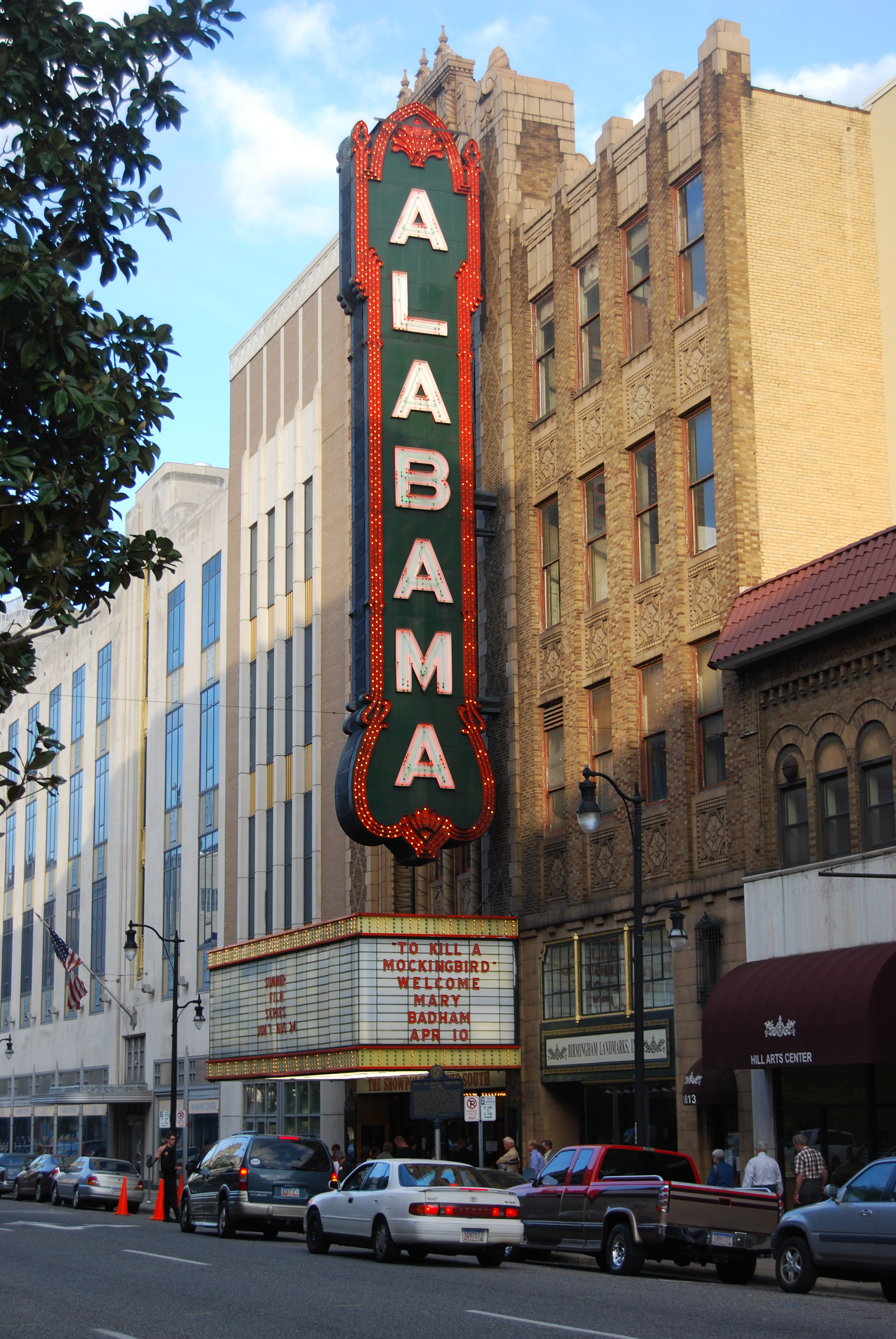 Alabama Theatre — marquee and facade.